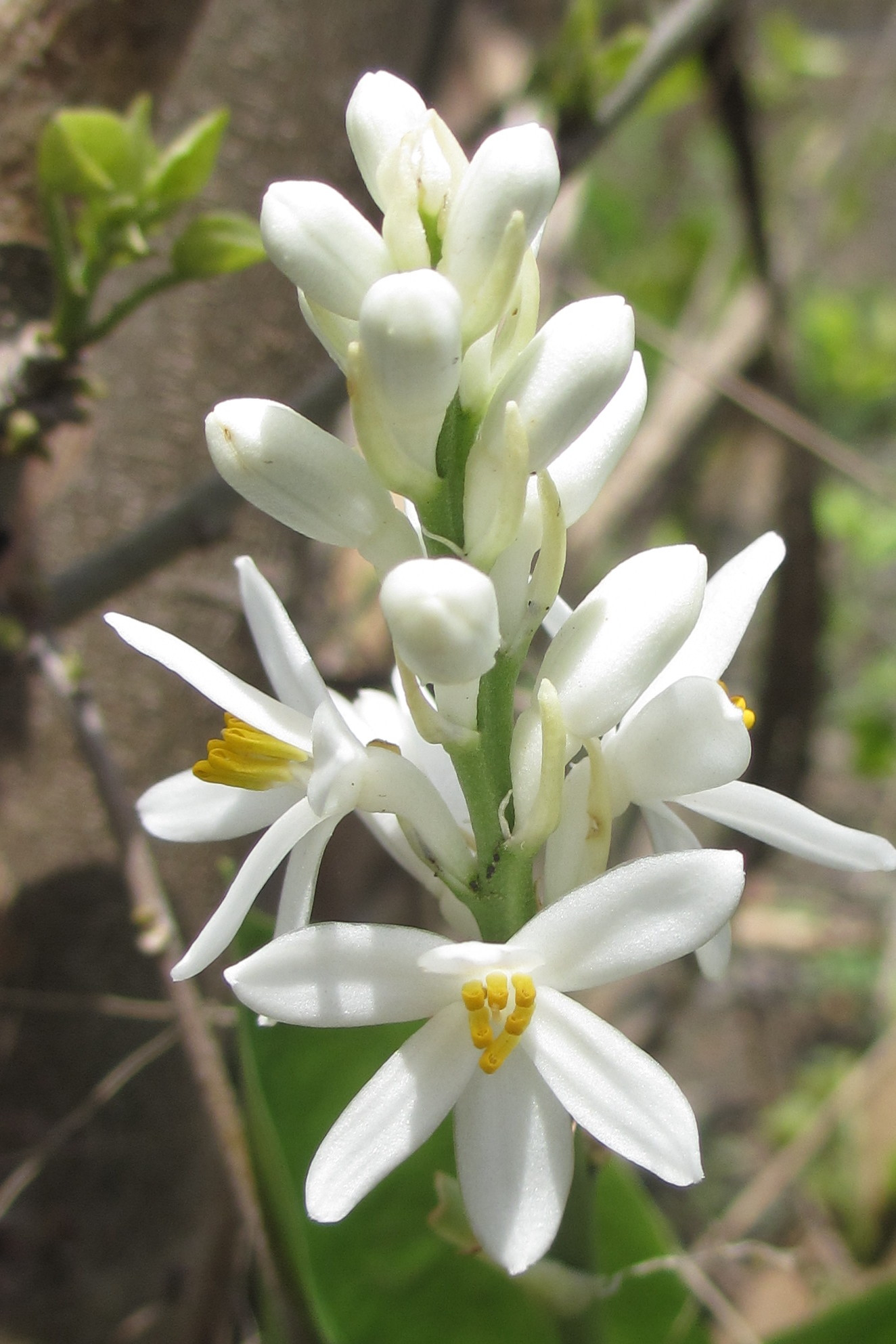 Muepane, Pemba-Metuge District in Northern Mozambique, 20 m.a.s.